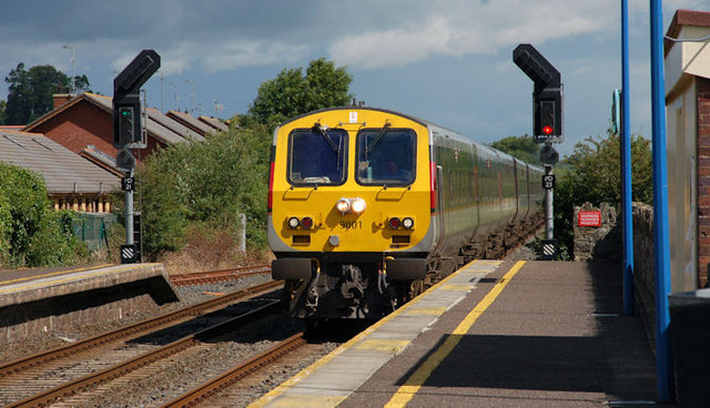 The "Enterprise" at Poyntzpass. See 494300. The same train, with the driving trailer leading, as it passes Poyntzpass station.